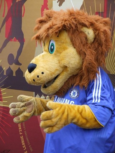 Chelsea. Lion. 2008 UEFA Champions League Final